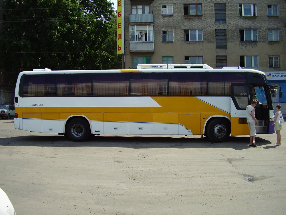 Kia Granbird, Voronezh